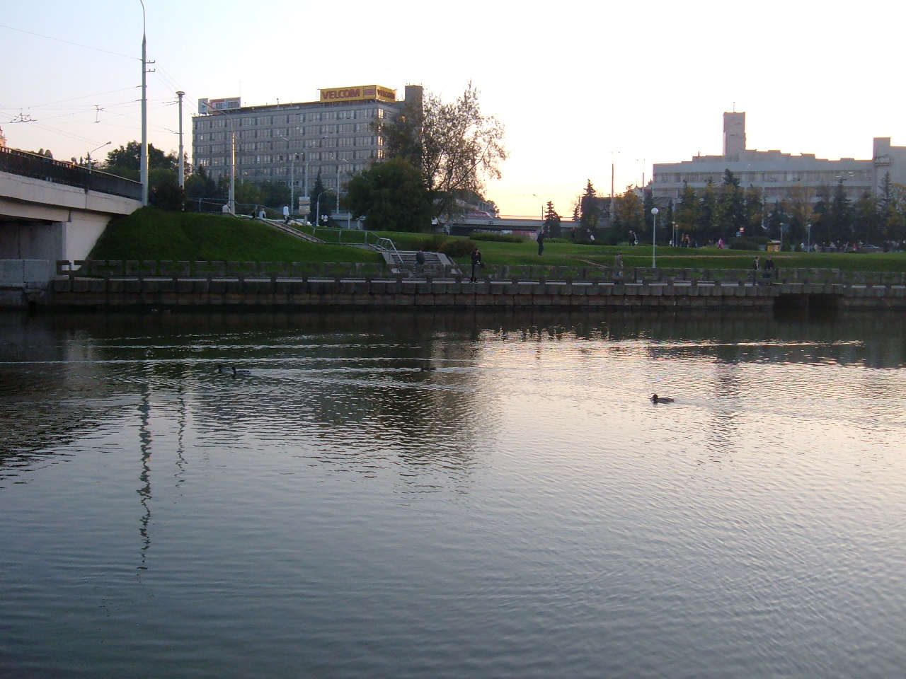 Śvislač river view in center of Minsk, Belarus.